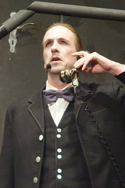 Photo from the play „Dinner for One - Killer for Five“, showing Mathias Münch as Chief Inspektor DeCraven, Mund Art Theater, Touring Company 2007